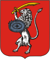 Chekalin (Likhvin, Tula oblast), coat of arms (1777)